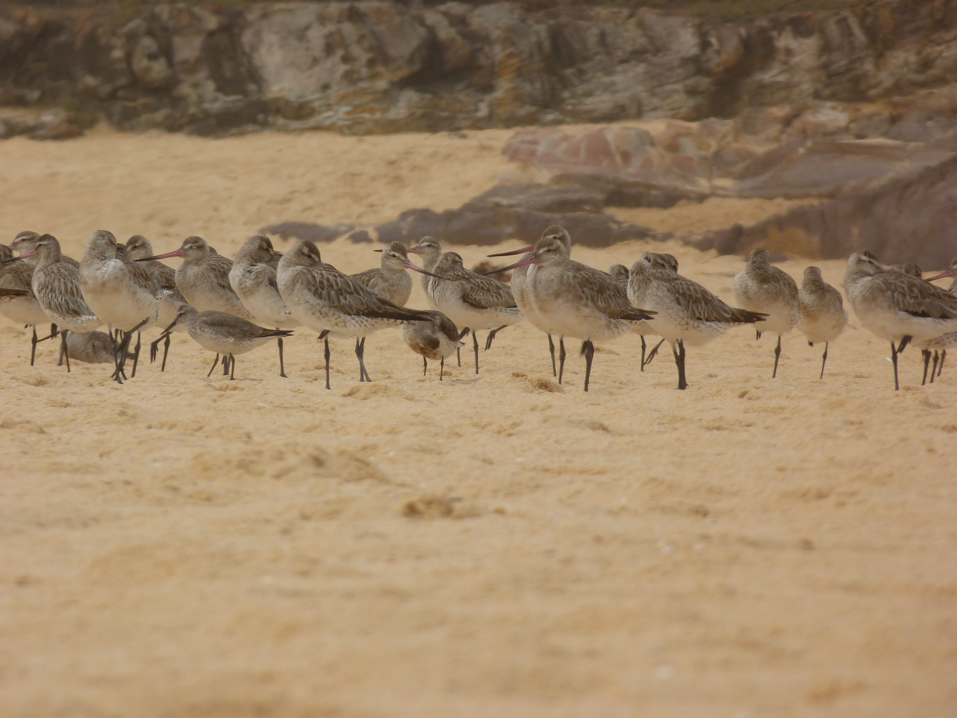 Limosa lapponica (Linnaeus, 1758), Bar-tailed Godwit and Calidris canutus (Linnaeus, 1758), Red Knot, Merimbula, NSW, 10 November 2010